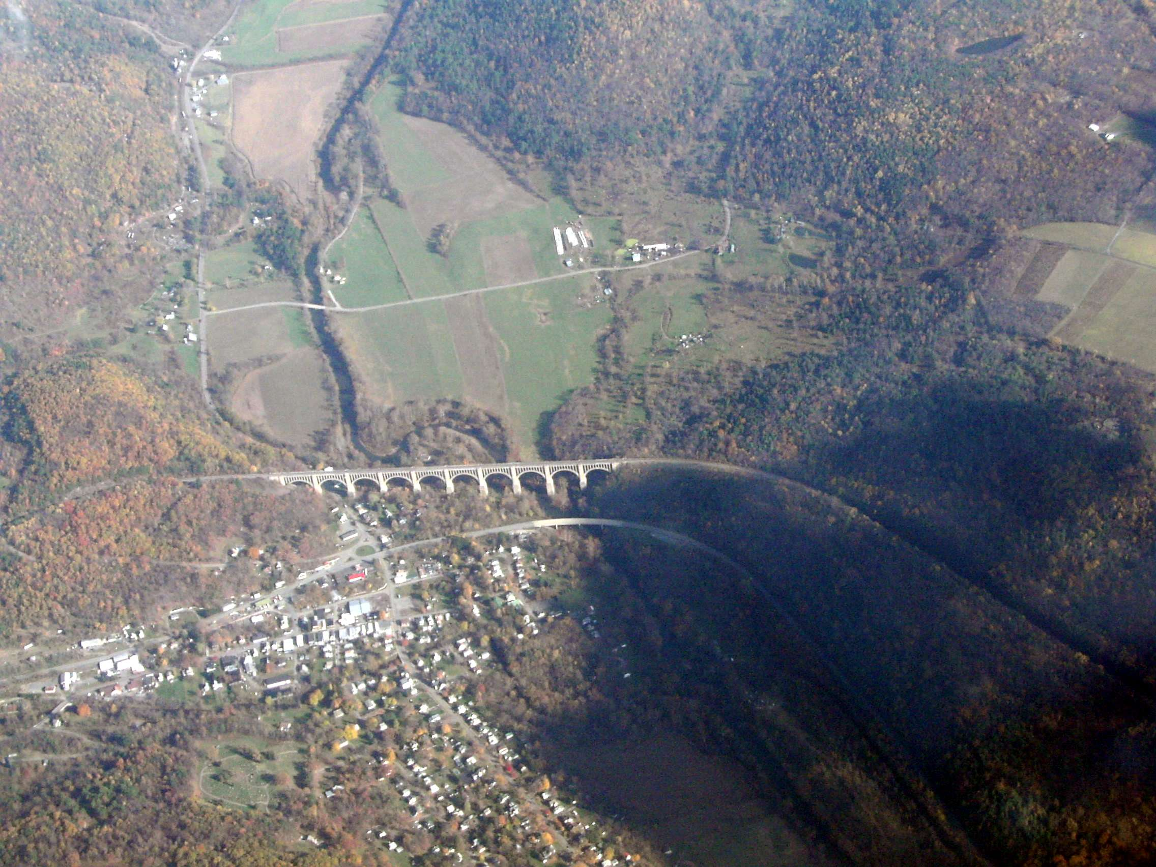 Wikipedia:Tunkhannock Viaduct, in Wikipedia:Nicholson, Pennsylvania, from about 20K feet.